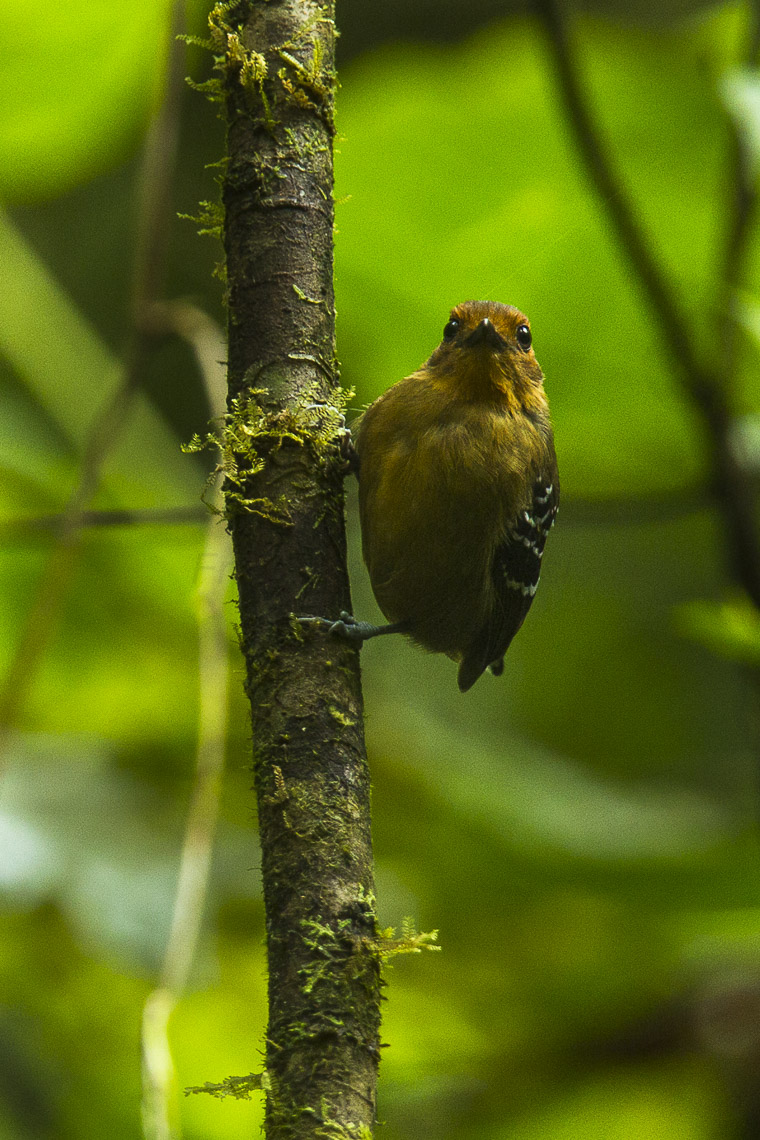 Scale-backed antbird (Willisornis poecilinotus)- South Ecuador_S4E1174